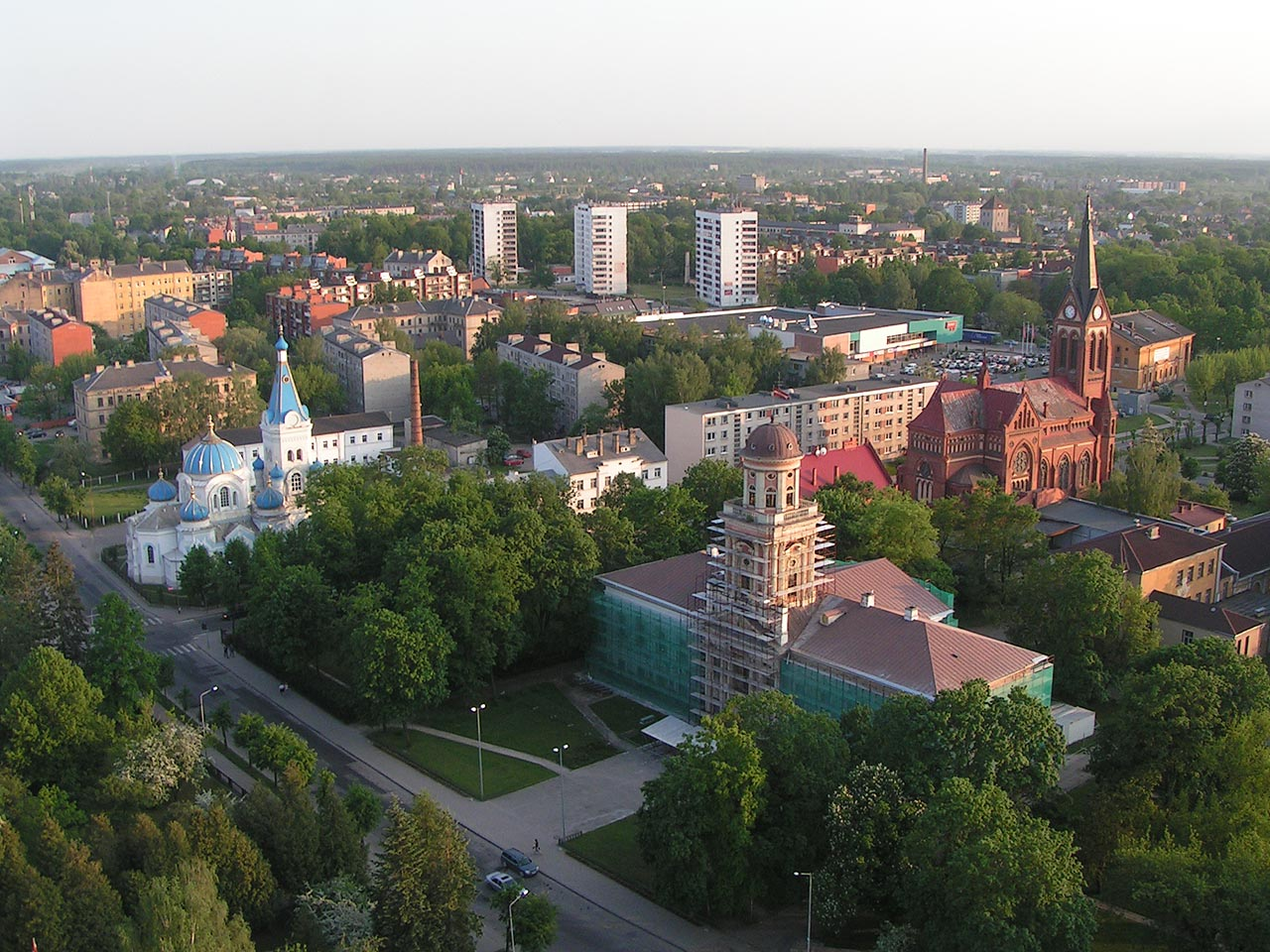 Jelgava Aerial View. Academia Petrina, St. Simeon and Anna Orthodox Church, Catholic church